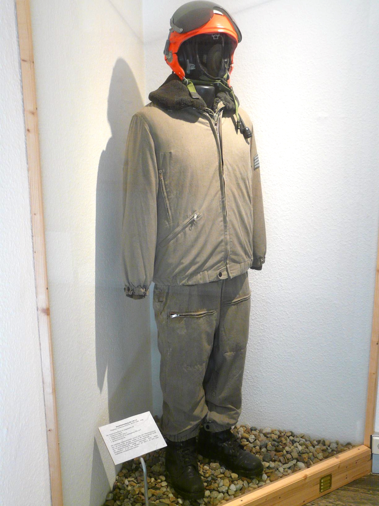 Uniform dress of the GDR National People`s Army, here flying suit to aircraft crew members (1962–1978).